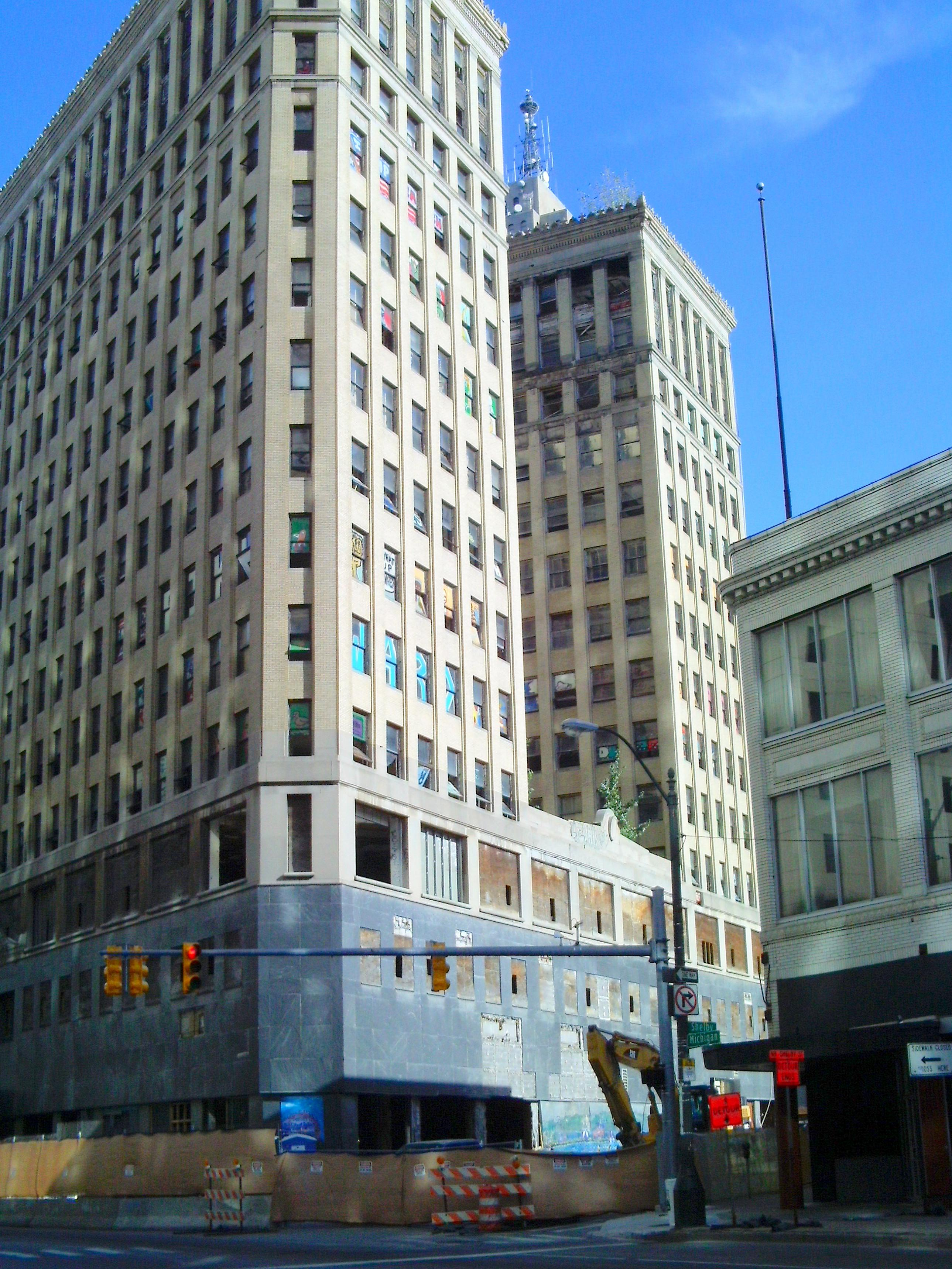 Demo barricades of Lafayette in fall 2009